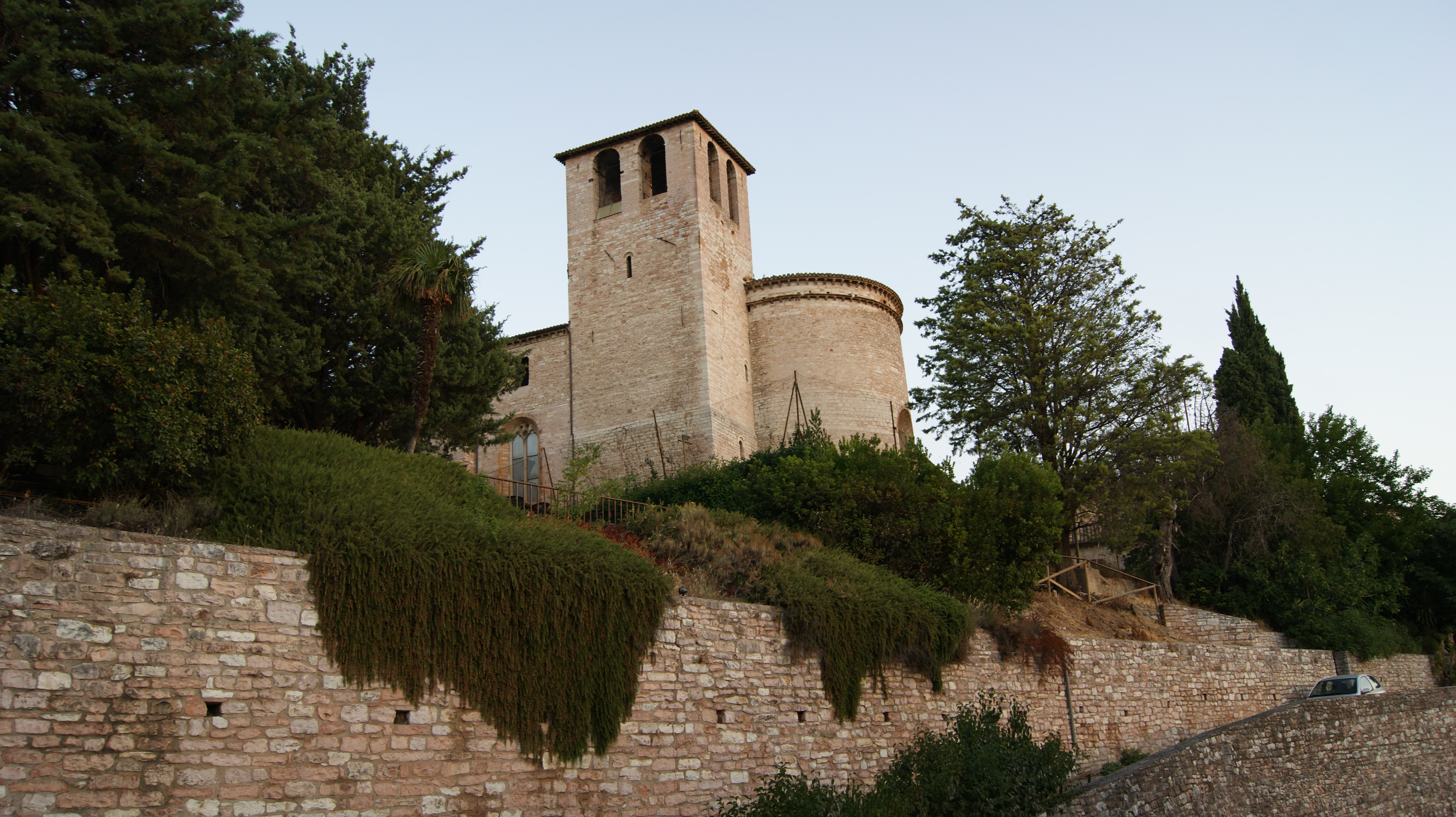 Spello in the province of Perugia in Umbria, Italy. Church San Lorenzo.